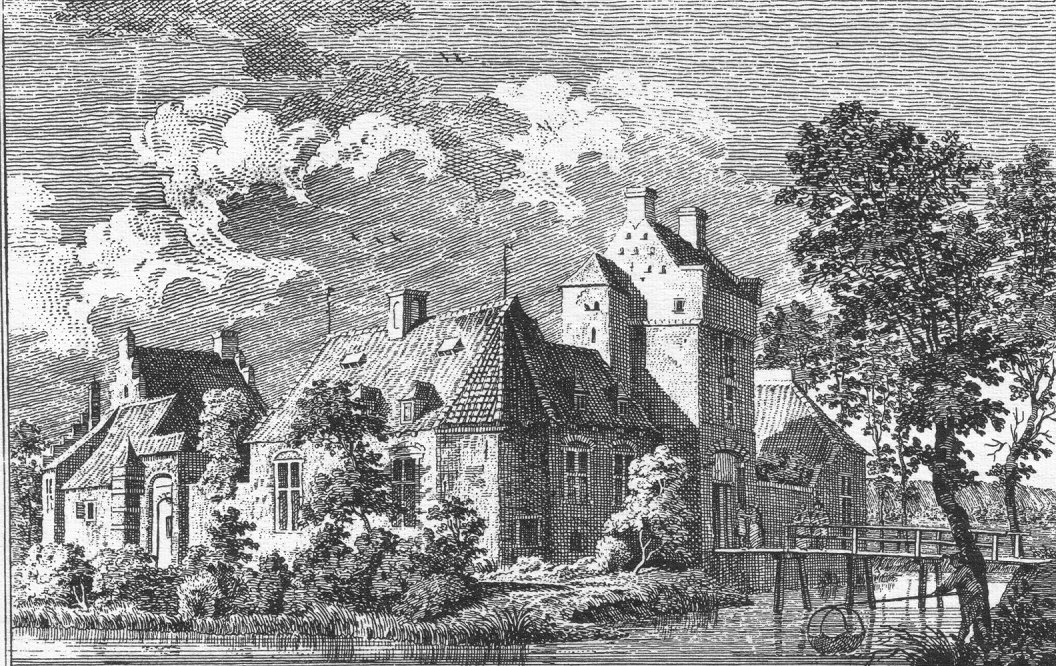 Haus Schmithausen, 1744, on an old engraving